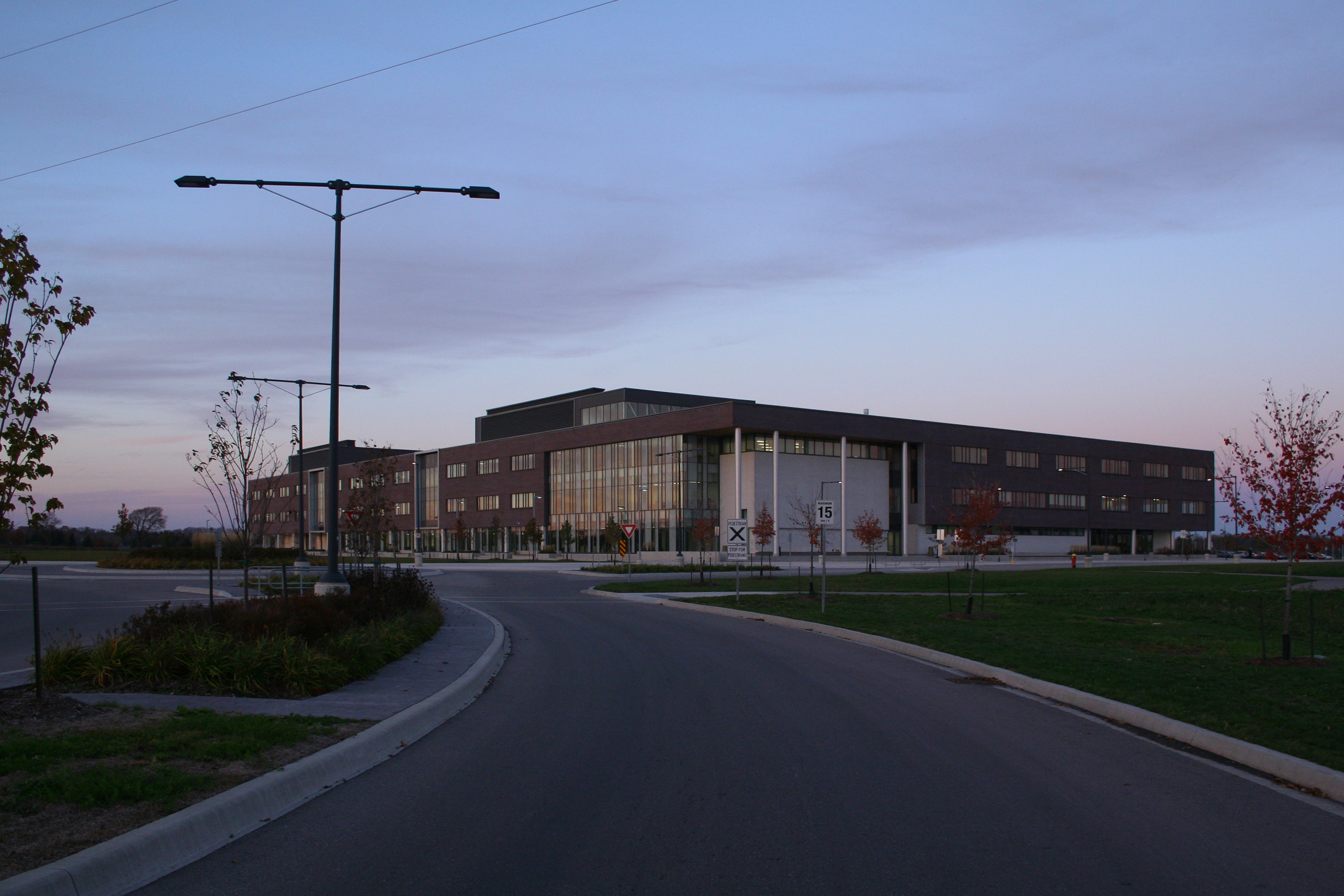 This image shows the Cambridge Campus of Conestoga College from the road leading into the campus grounds.